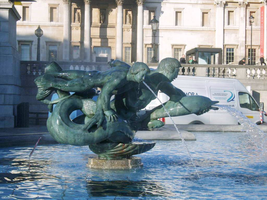 Fountain at the National Gallery, in London, Trafalgar Square